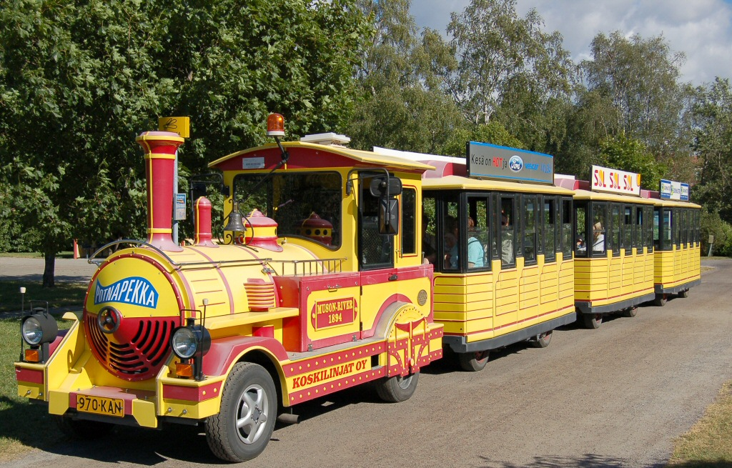 A Dotto Trains Muson River at Hupisaaret park in Oulu, Finland.